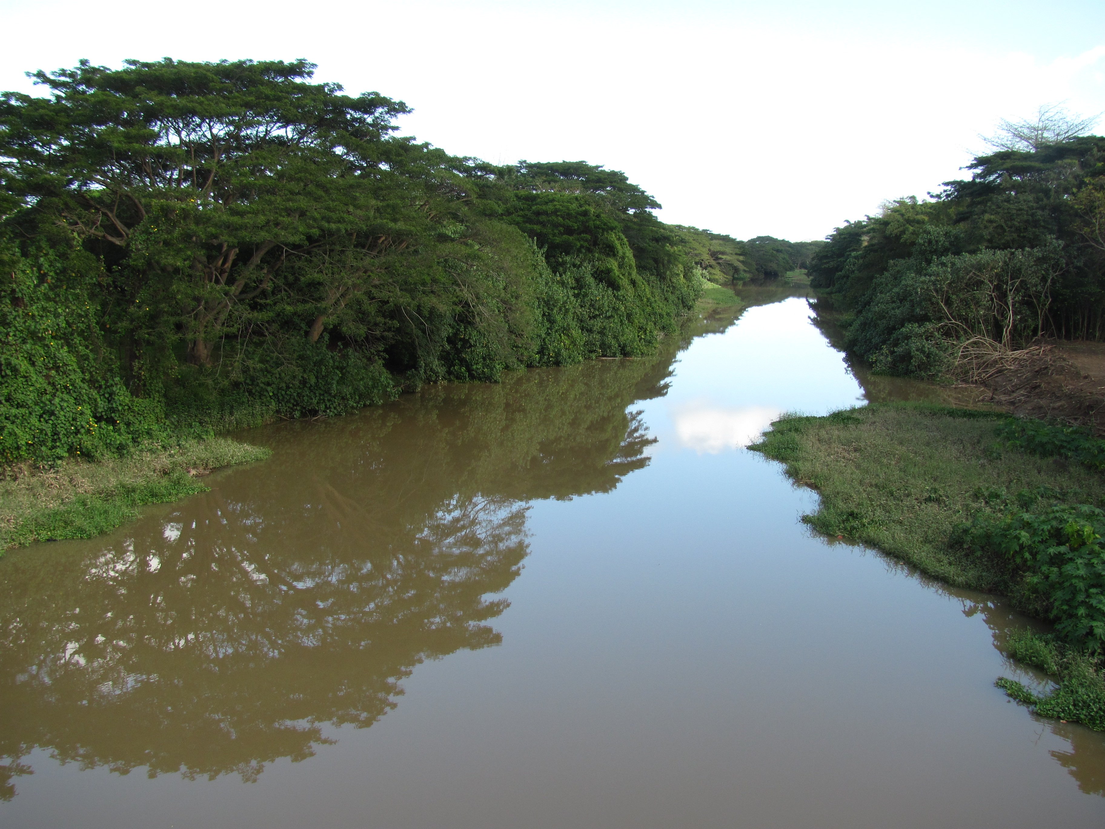 Koné River near Koné Town, New Caledonia